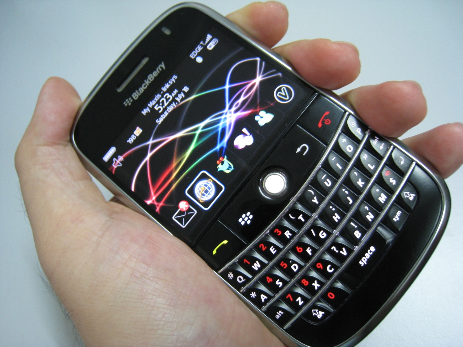 An image of a BlackBerry Bold in a hand.